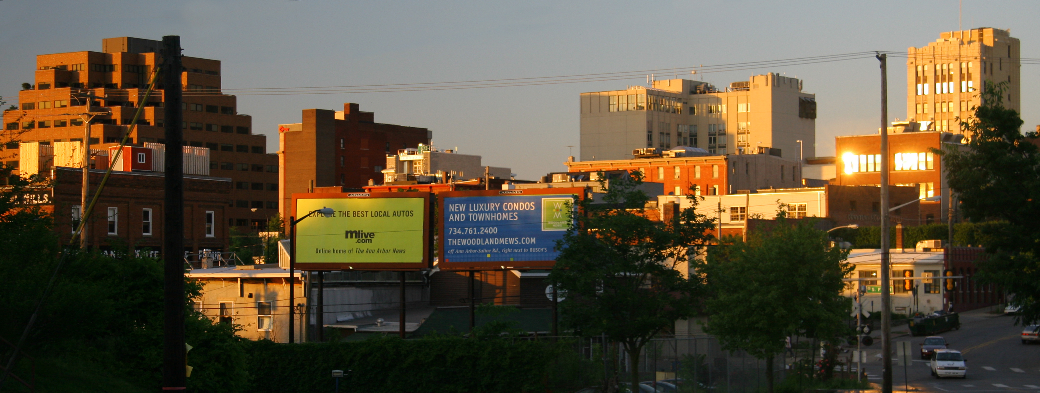 A photograph of Ann Arbor's downtown business district.